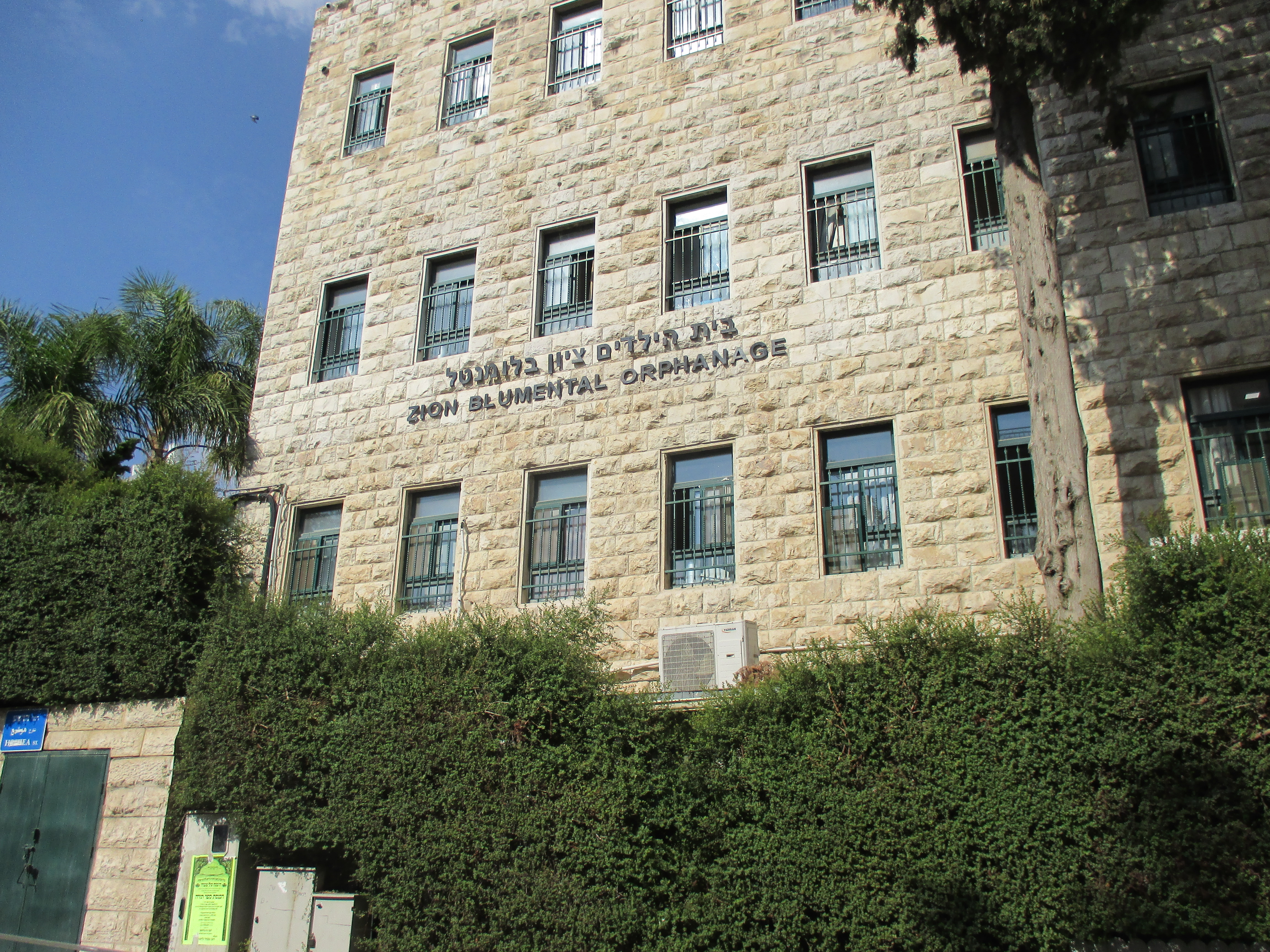 Jerusalem, Hoshea street - Zion Blumental orphanage